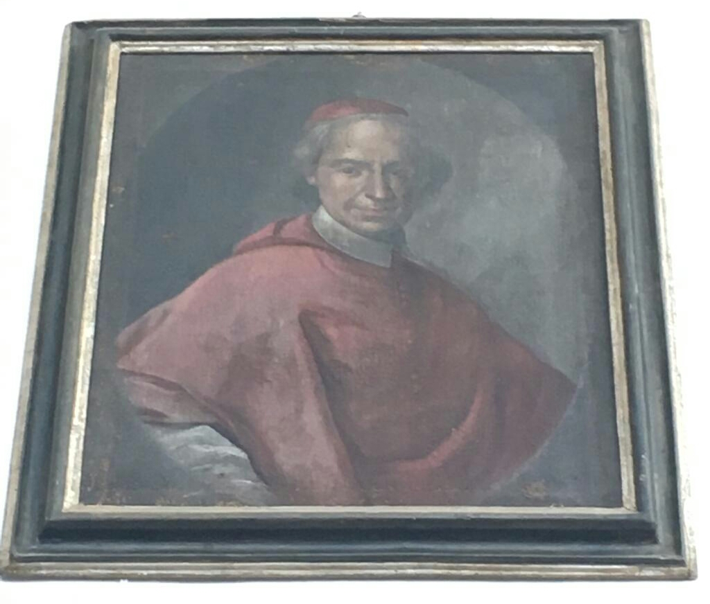 Ritratto del cardinale Giuseppe Renato Imperiali, situato nella sacrestia della chiesa matrice di Francavilla Fontana.